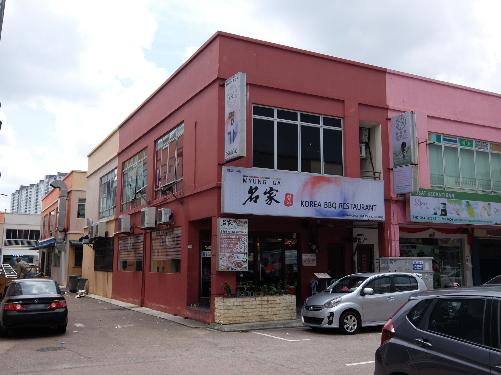 Myung Ga Korea BBQ Restaurant, Taman Nusa Bestari, Skudai, Iskandar Puteri, Johor, Malaysia